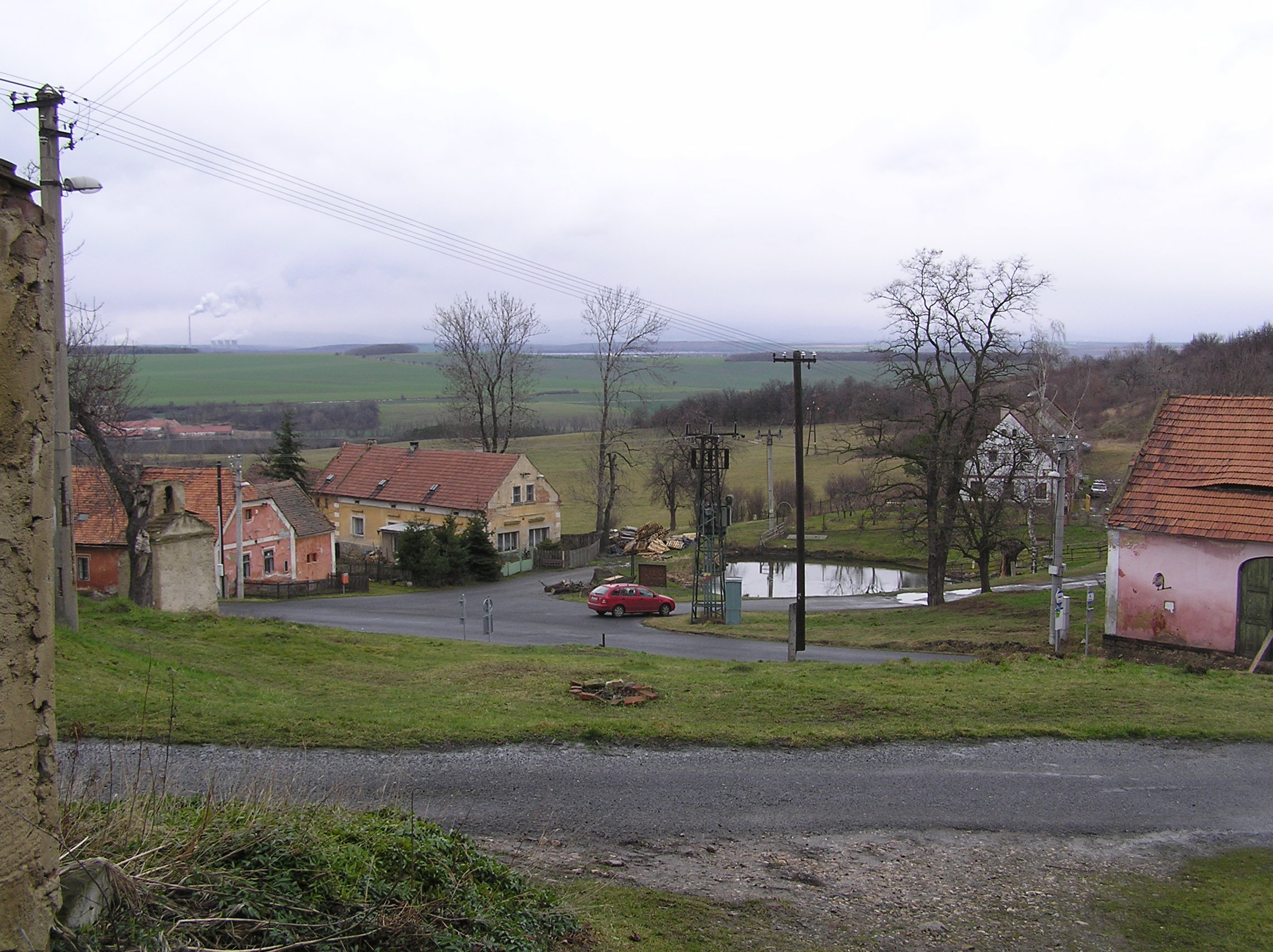 Village square in Větrušice